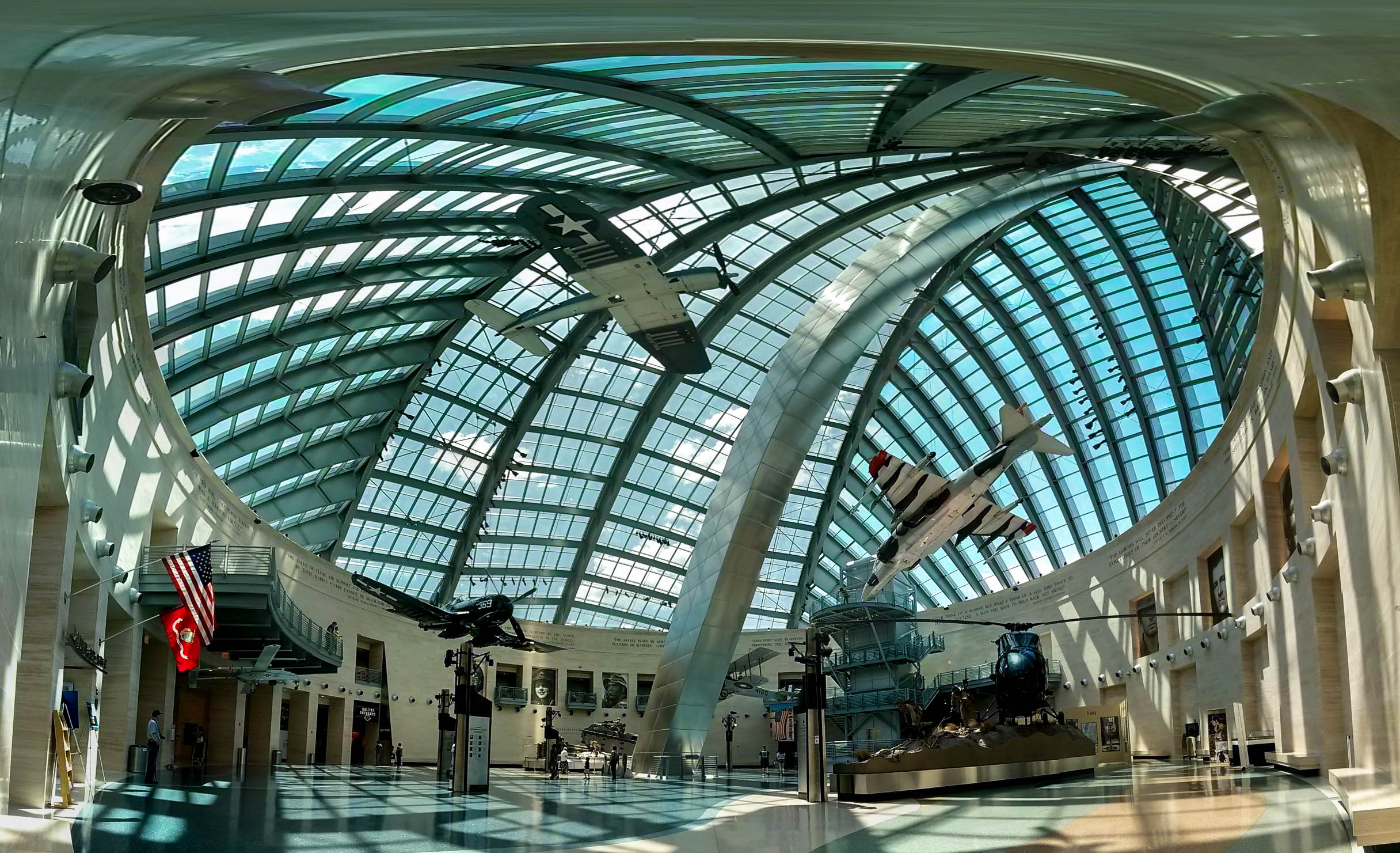 National Museum of the Marine Corps interior panorama